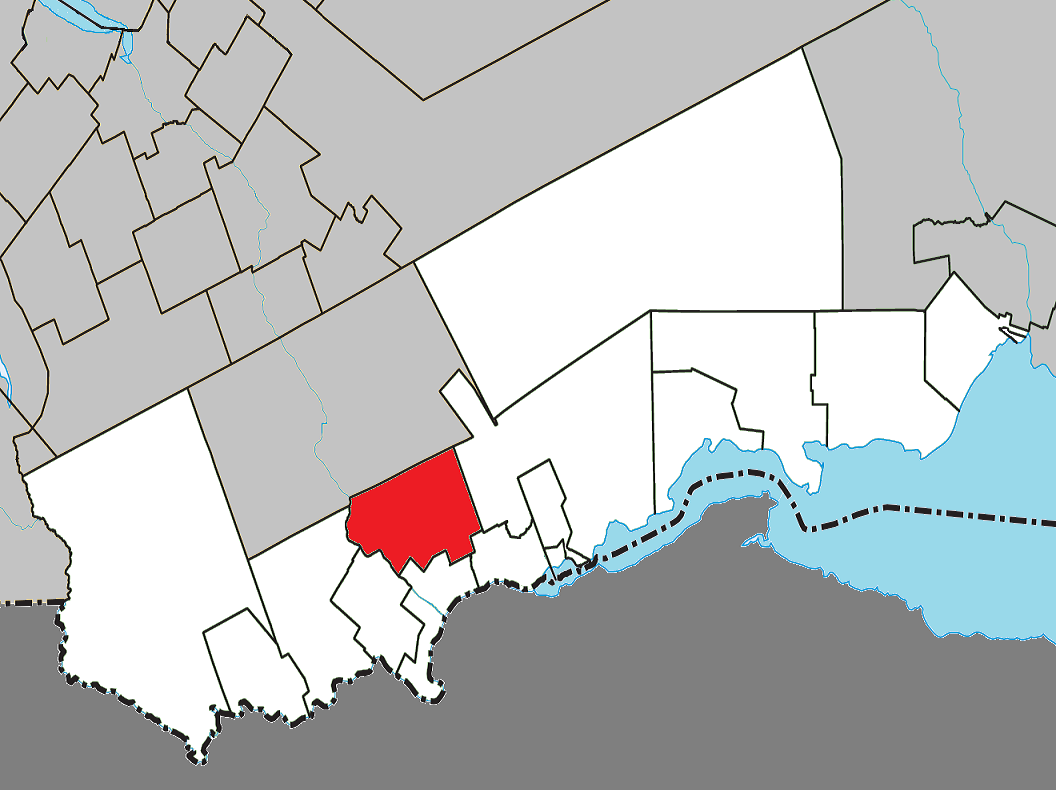 Location of Saint-André-de-Restigouche, Quebec within Avignon Regional County Municipality.